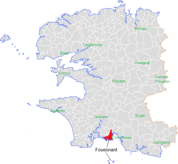 placement Fouesnant in departement Finistère